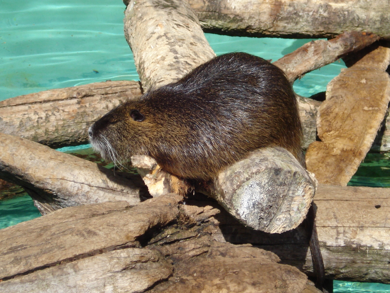 Nutria (river rat) in the Zoological Garden of Zagreb, Croatia (April 2012)